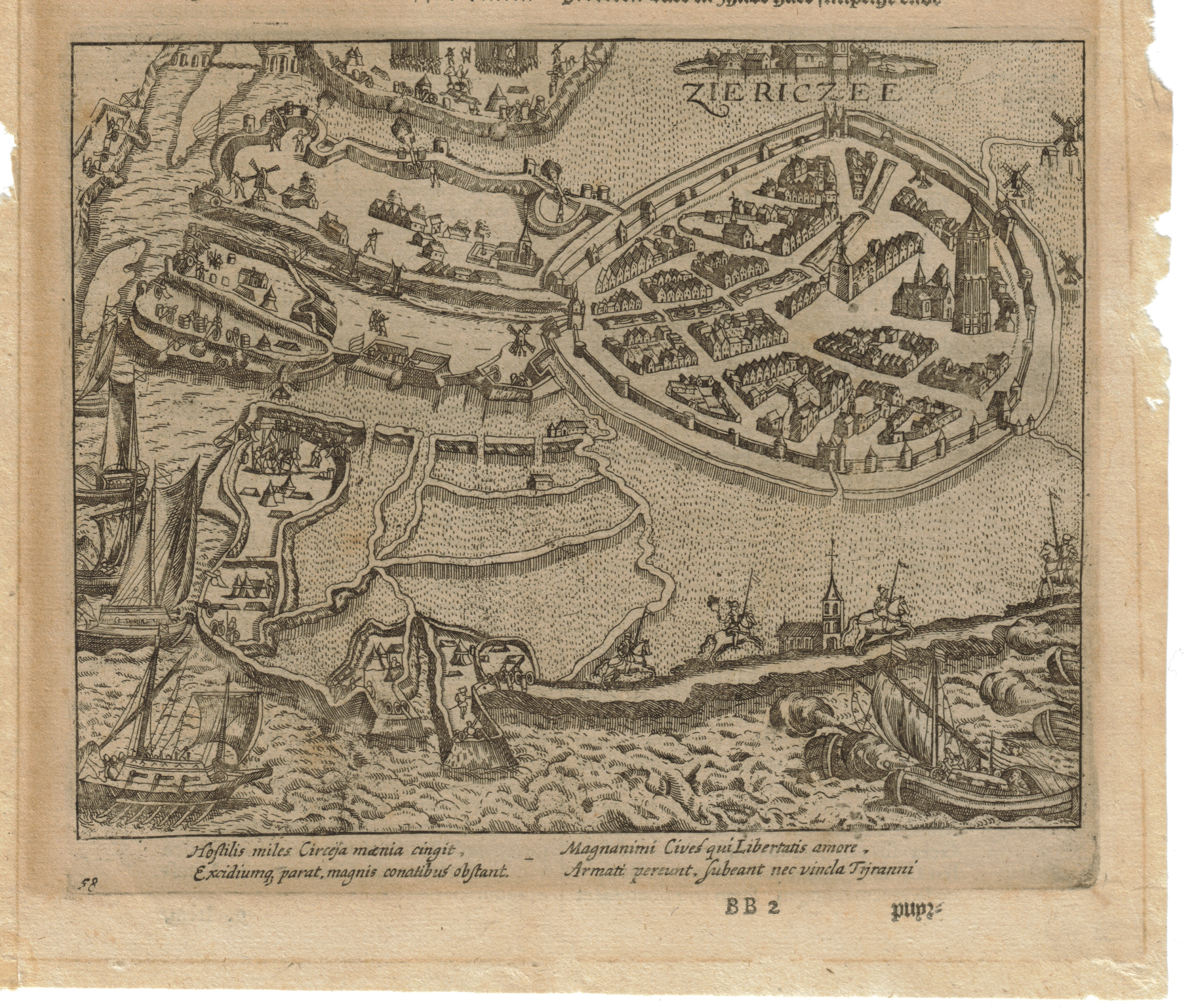 Rare Map of Zierikzee, showing the siege by Spanish troops in the year 1575; size; 15 x 17,5